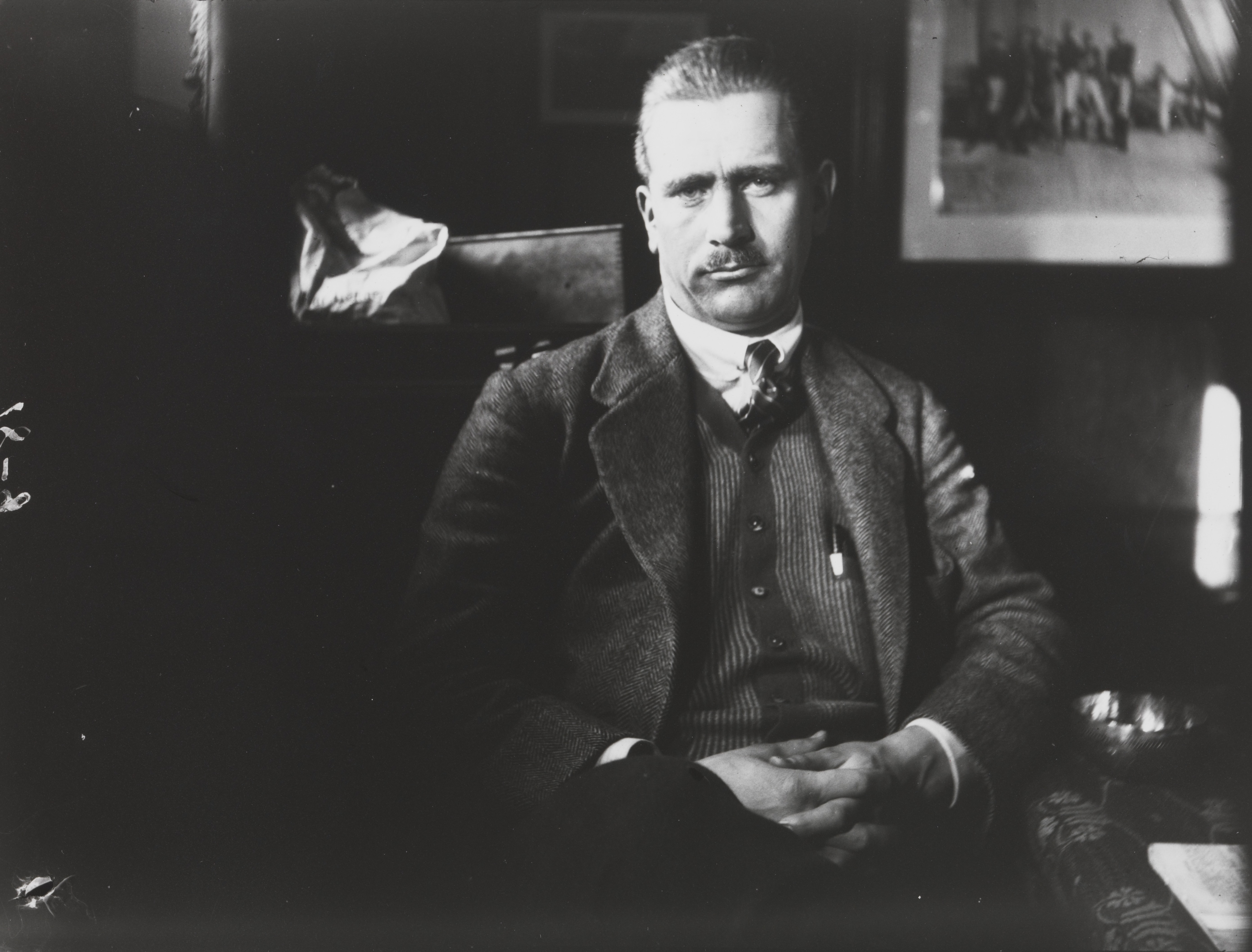 Jonas Lied, director of the Siberian Company, leader of the Siberian journey. One of the pictures from the journey to Siberia between Aug. 2 and Oct. 26, 1913. Fridtjof Nansen started his trans-Siberian travel on a freighter from Oslo to Yenisei. The journey went through parts of the Northeast Passage, which was to be opened as a shorter trading connection between Western Europe and the Far East.